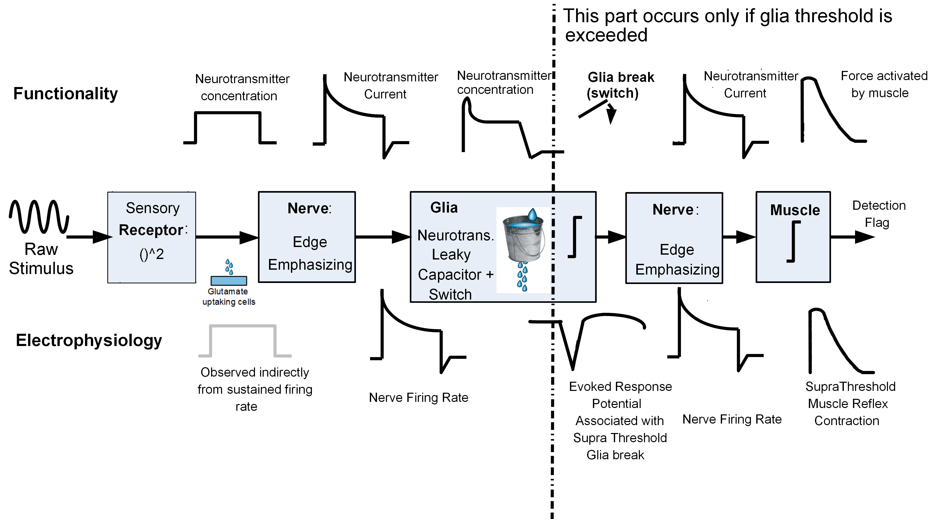 The biological neural detection scheme as conjectured in Nossenson et al (2013, 2016)